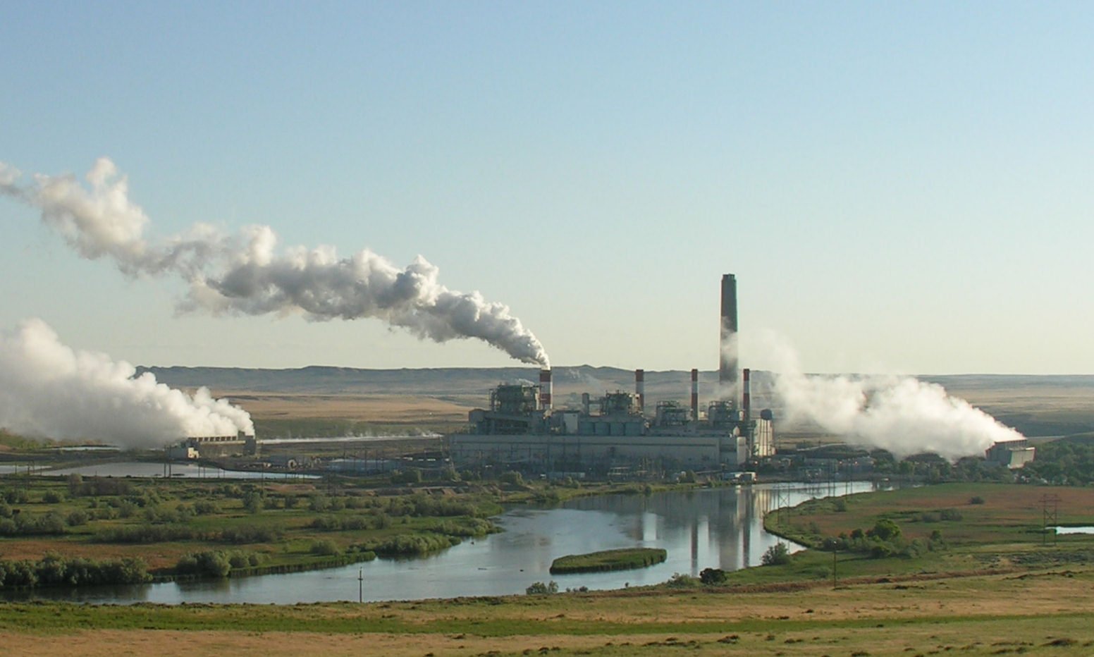 Dave Johnson coal-fired power plant, central Wyoming / 2006